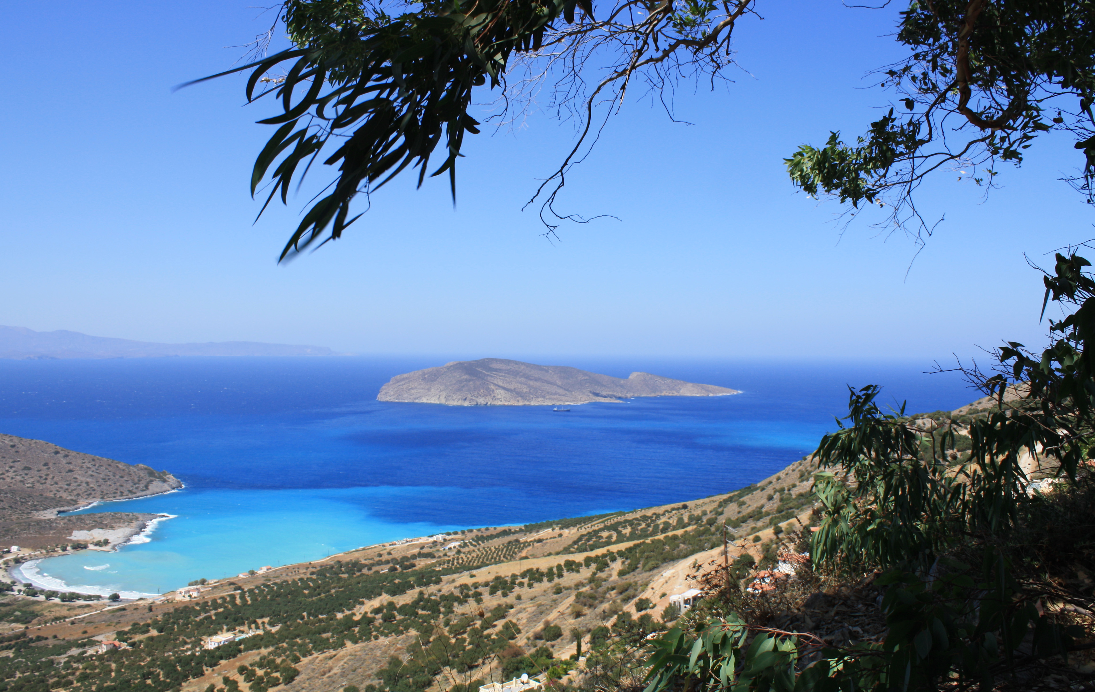 Psira Island, Crete, Greece, down left:Kavousi beach called Tholos.